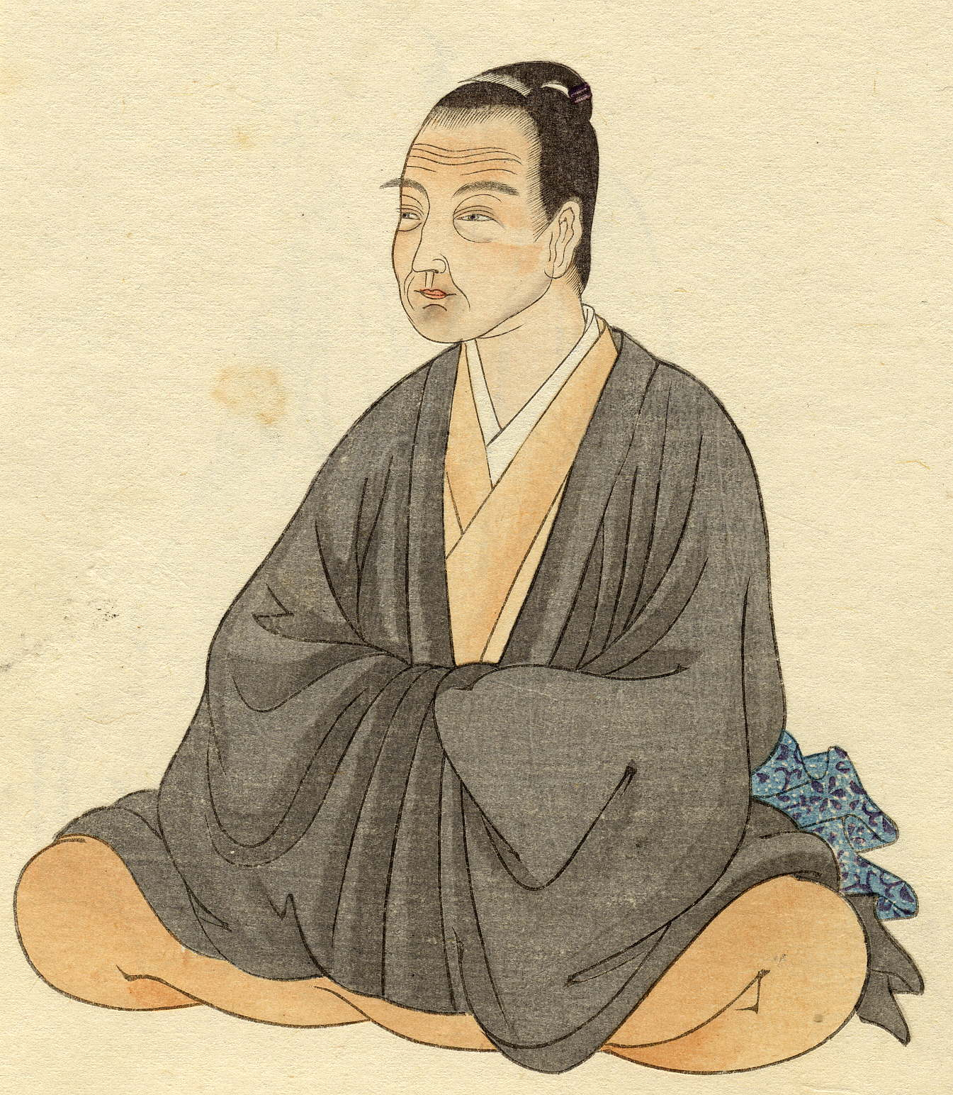 Motoori Norinaga (本居宣長1730–1801) was a Japanese scholar of Kokugaku during the Edo period.